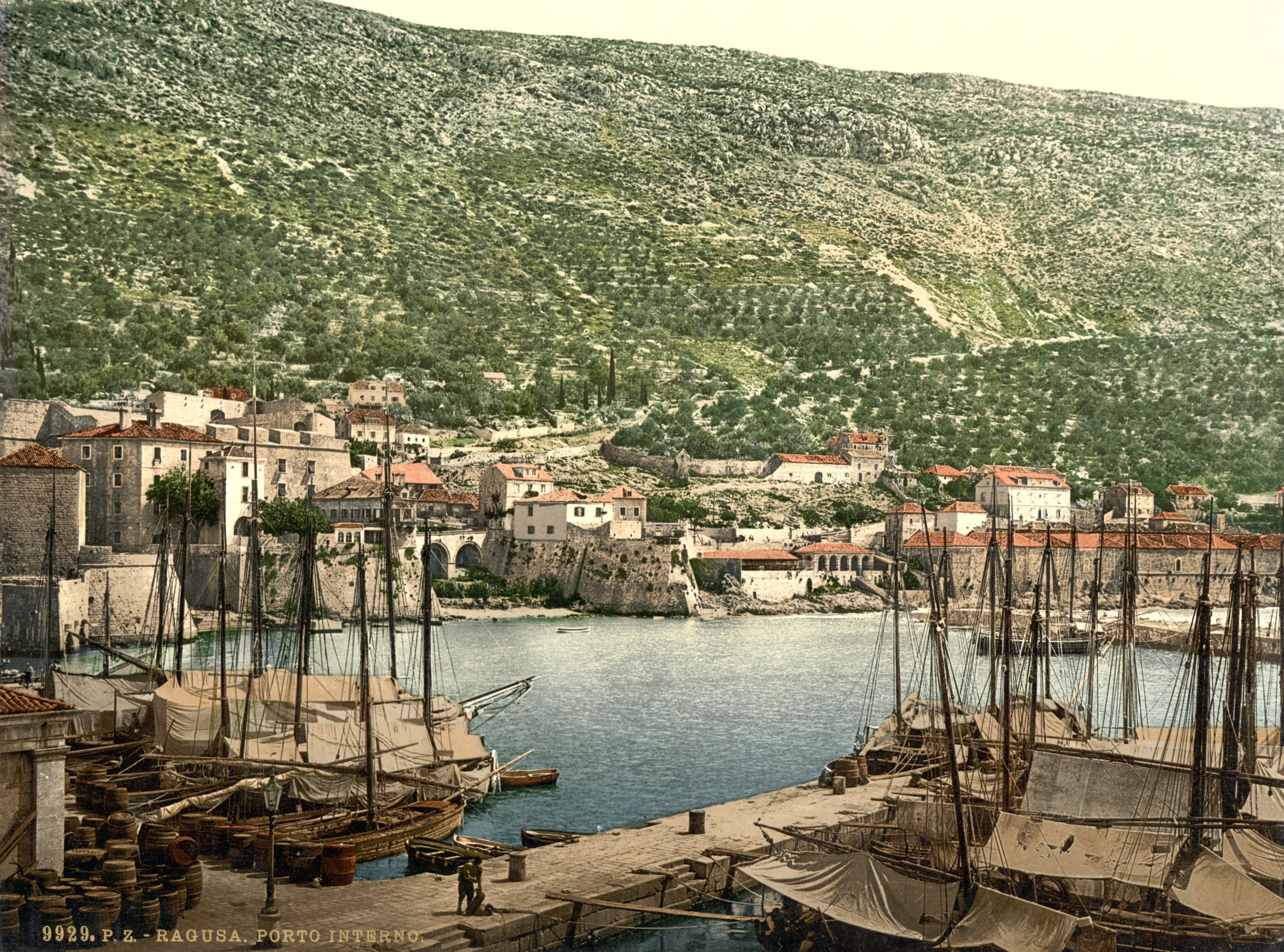 Print no. "9929".; Title from the Detroit Publishing Co., Catalogue J-foreign section, Detroit, Mich. : Detroit Publishing Company, 1905.; Forms part of: Views of the Austro-Hungarian Empire in the Photochrom print collection.